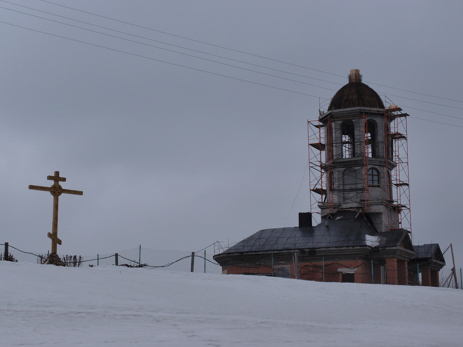 Church in Lošyca. Царква ў Лошыцы